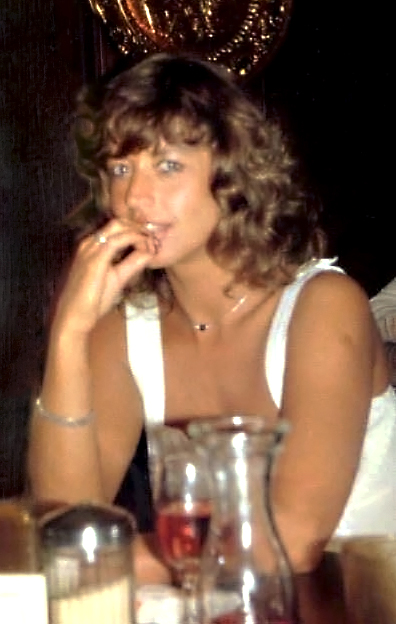 Barbro "Lill-Babs" Svensson, c. 1976. Digitally removed is Steve Vigil. Another cropped version of this photo exists with Vigil's face blurred, but this was uploaded as a new file, as significant changes in this image occurred; colour correction, obscuring Vigil, and noise reduction.